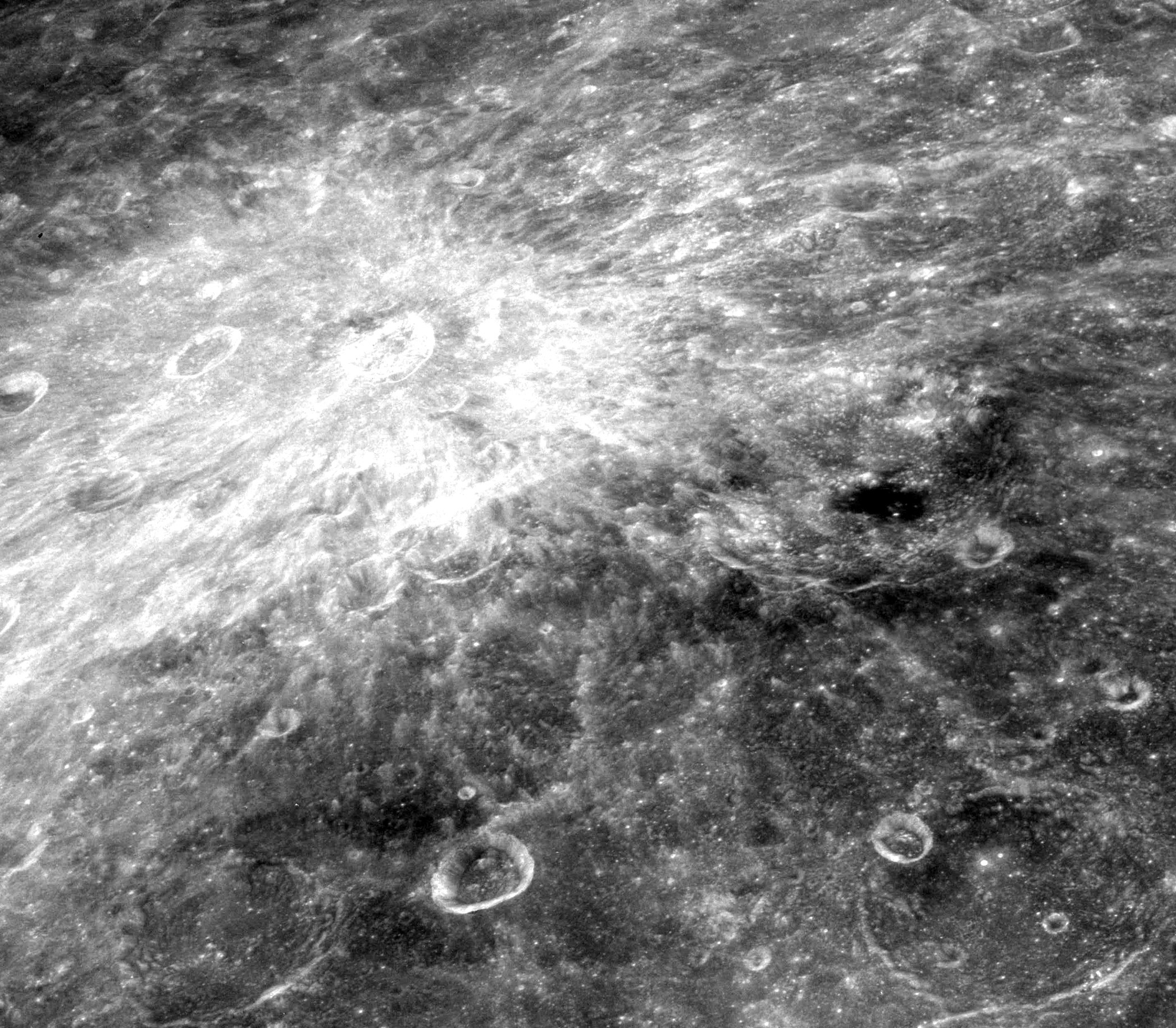 Oblique view of Necho with bright rays, on the far side of the moon. Langemak is right of center, and Meitner is in the lower right corner. Facing east.